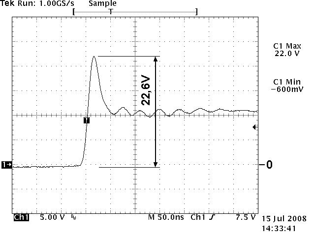 peak to peak voltage is the sum of max. and min. voltage, which has been measured by the oscillograph